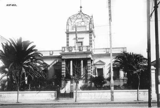 Municipalidad vieja de Vicente López